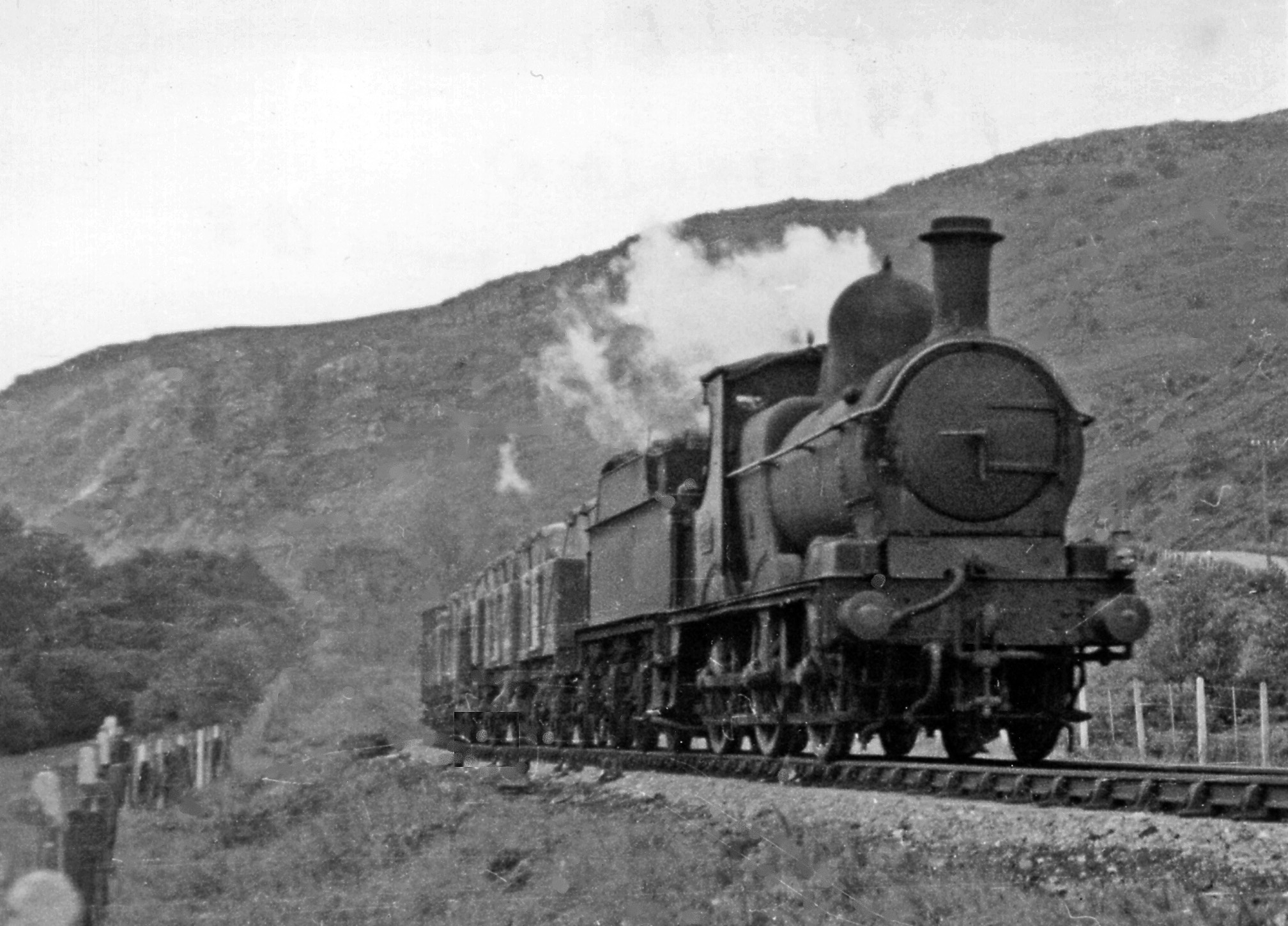 Southbound goods train on Mid-Wales line in Wye Valley near Doldowlod. View northward, towards Rhayader, Llanidloes and Moat Lane Junction: ex-Cambrian Mid-Wales line, Moat Lane - Three Cocks - Brecon. This scenic line was closed 31/12/62. It was worked in its latter days by LMS Ivatt 2MT 2-6-0s, but back in 1949 ex-GW and Cambrian 0-6-0s held sway: here we have 'Dean Goods' 0-6-0 No. 2351, dating back to 11/1884 and withdrawn 2/53. Up on the right is Gwasteddyn Hill (1,566 ft.).